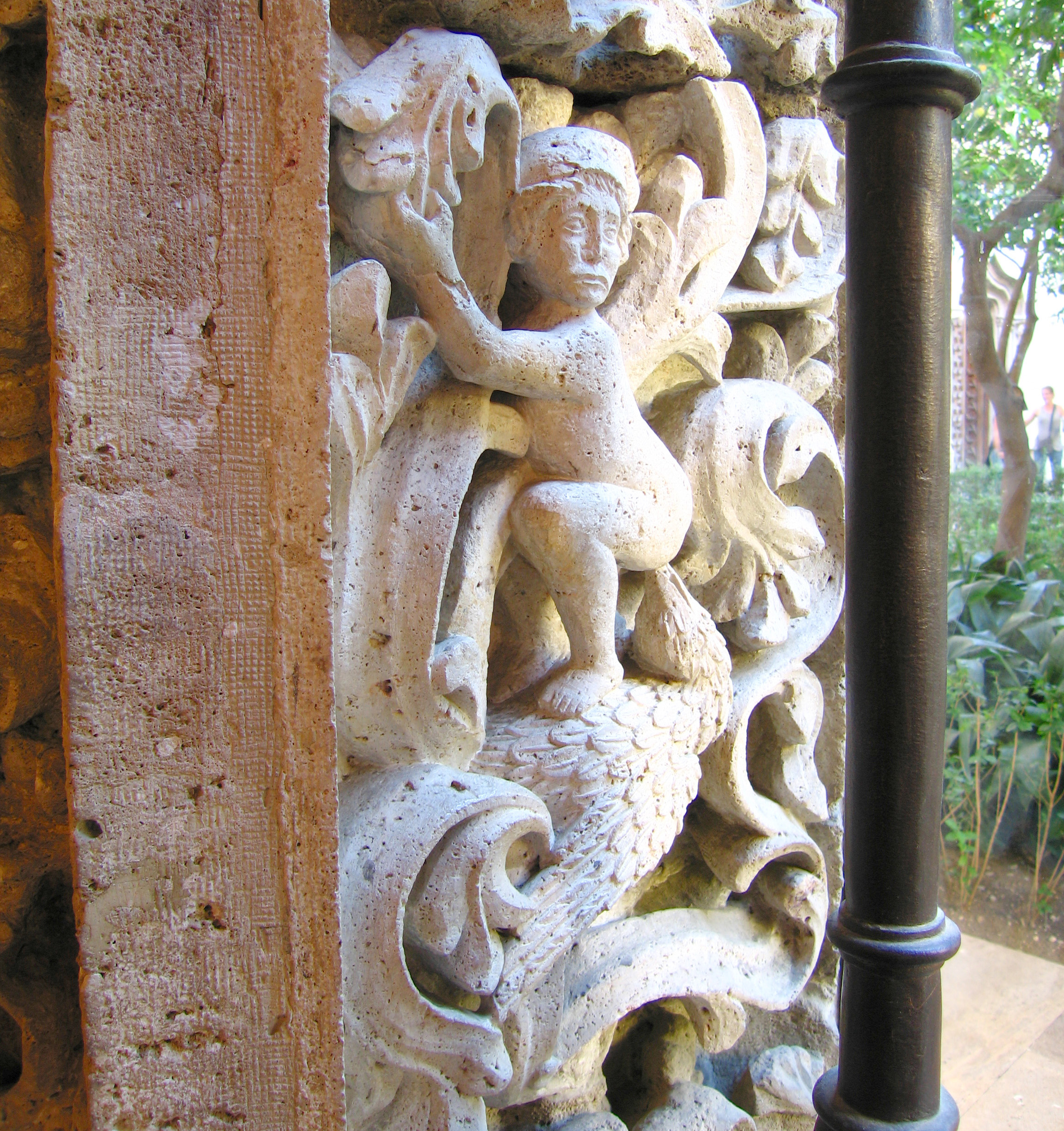 Escultura de la llotja de València